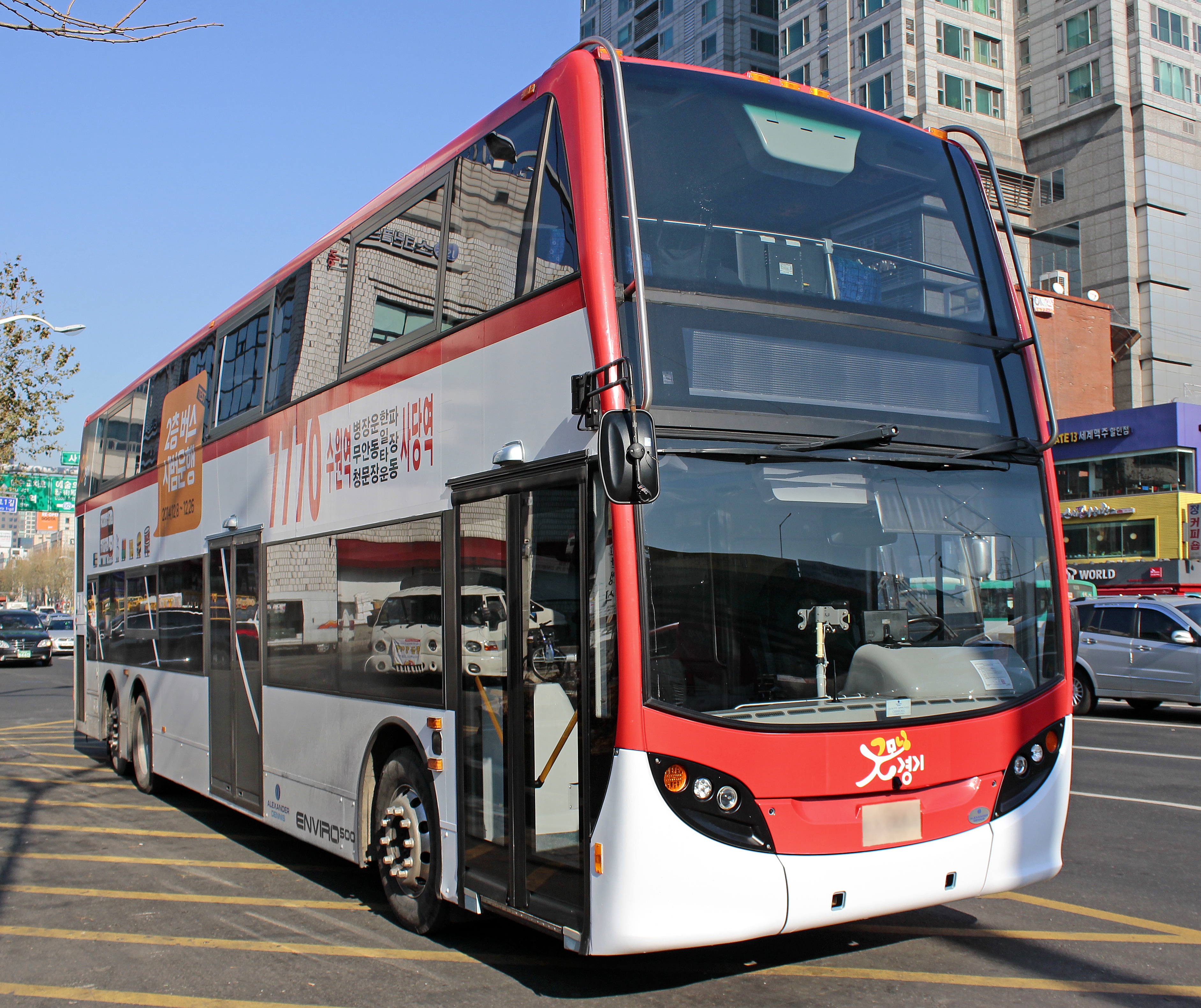 Alexander Dennis Enviro500 Motorcoach